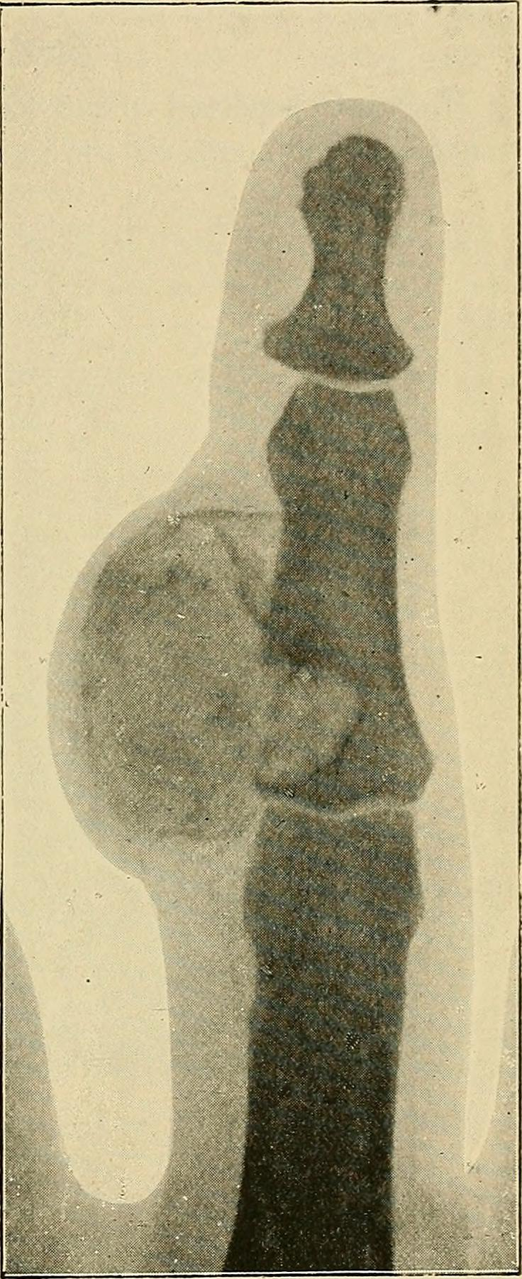 Title: The Röntgen rays in medical work Year: 1907 (1900s) Authors: Walsh, David Subjects: X-rays Radiography X-Rays Radiography Publisher: New York : William Wood Text Appearing Before Image: thickenings, as in syphilis,may be readily demonstrated bymeans of the rays, and also thehyperplastic conditions met within ordinary periostitis, in rickets,and in Charcots disease. Exostosis, or OssifyingEnchondroma. A good example of ossifying en-chondroma is shown in Fig. 131.It was taken from a man ofabout fifty who had sustained aninjury to the hand many yearspreviously. In a ray photo-graph the tumour presented theappearance shown in the figure.From its generally light shade,we may assume it to be com-posed either of spongy bone or ofcartilage that has undergonepartial ossification, the areas ofthe latter being shown by darkermottlings. An interesting pointis that the form of the growthis distinctly traceable where itoverlies the darker phalanx. This lighter shade may be due to its replacing the compact tissueof the shaft by new spongy bone. A somewhat similar appearance isto be found in Fig. $8, where absorption of the outer shell of thebone has followed the impact of a bullet. Text Appearing After Image: Fig. 131.—Ossifying Enchondromaof Finger, of Old Standing:following Injury. Messrs. Allen and Hanbury. 264 TEE RONTGEN RAYS IN MEDICAL WORK A good example of exostosis of the tibia causing pressuredeformity and absorption of the fibula has been kindly contributedby Mr. Eobert Jones, F.R.C.S., of Liverpool (see Fig. 132). Gouty Bones. M. Potain reported to the Paris Academy of Sciences the occur-rence of light spots on the radiograms of gouty bones.* Presum